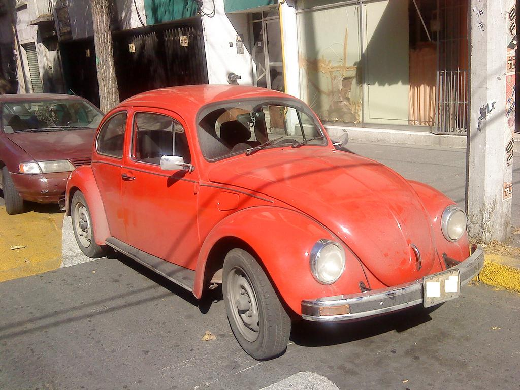 A 1995 mexican Volkswagen Beetle.